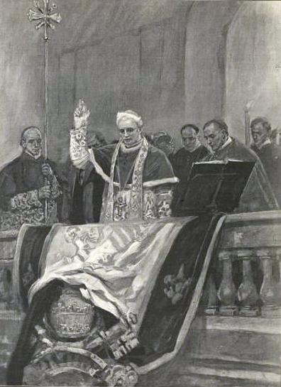 first bleesing of pius X